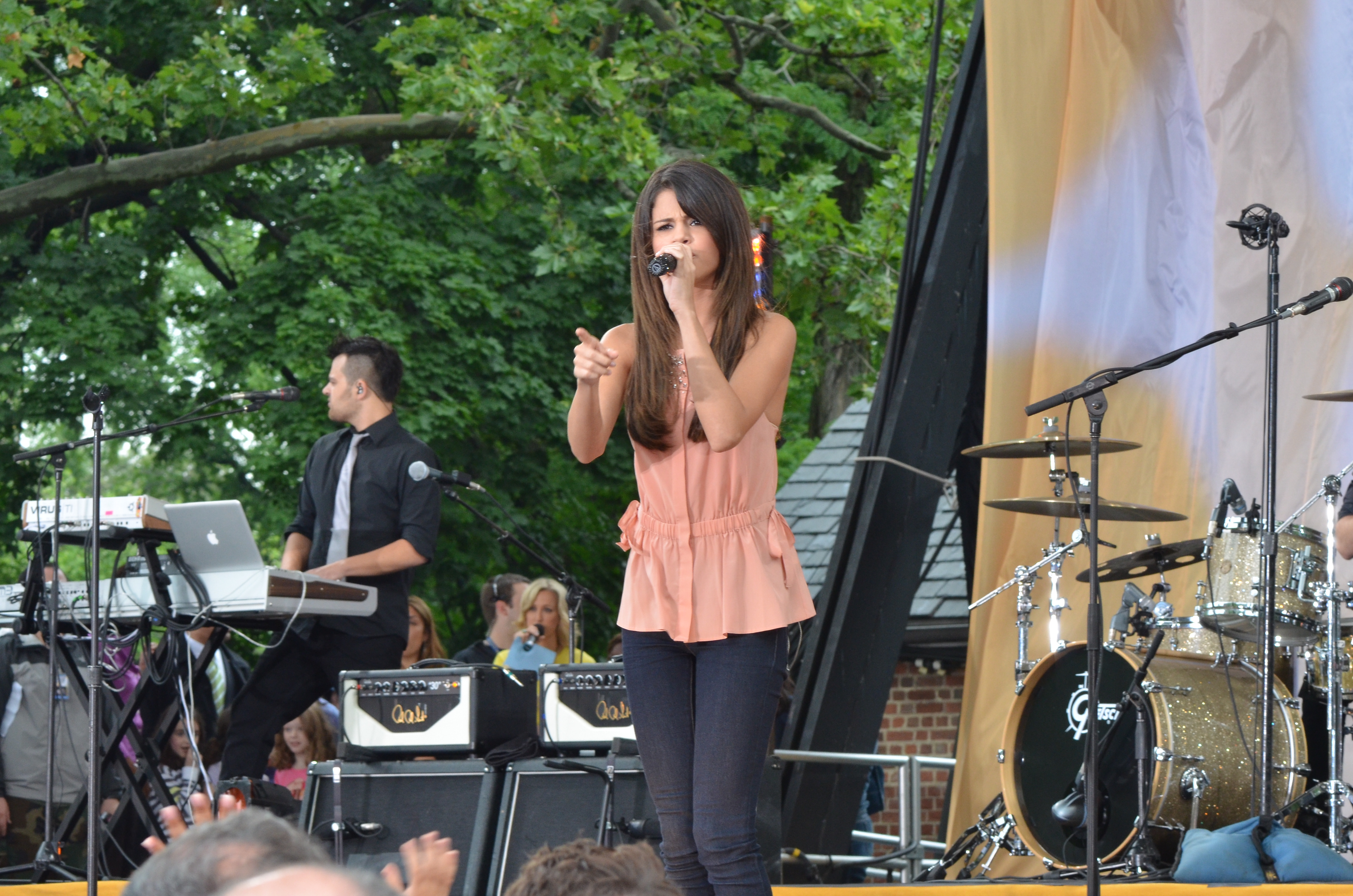 Performing "Love You Like a Love Song"